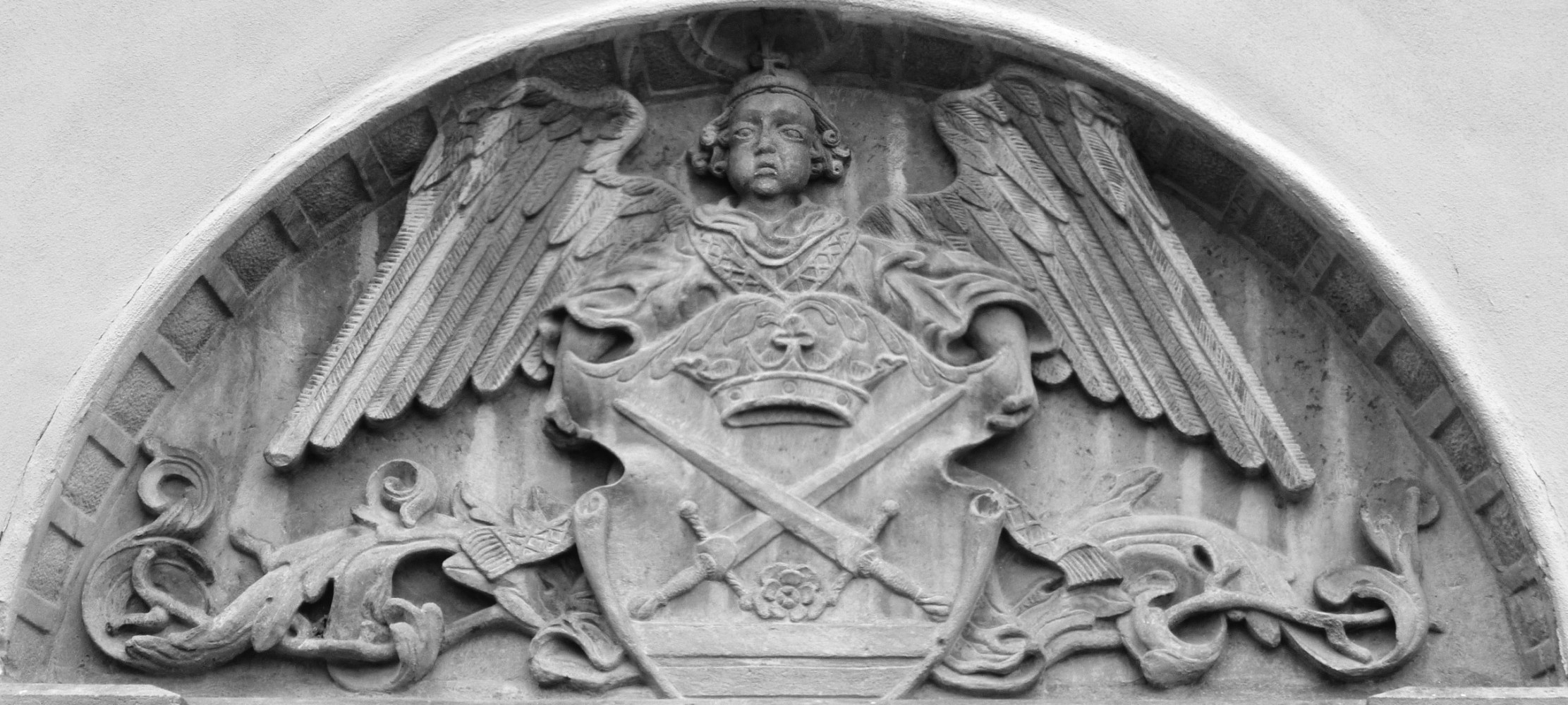 Coat of arms of Kežmarok. Portal of townhall.